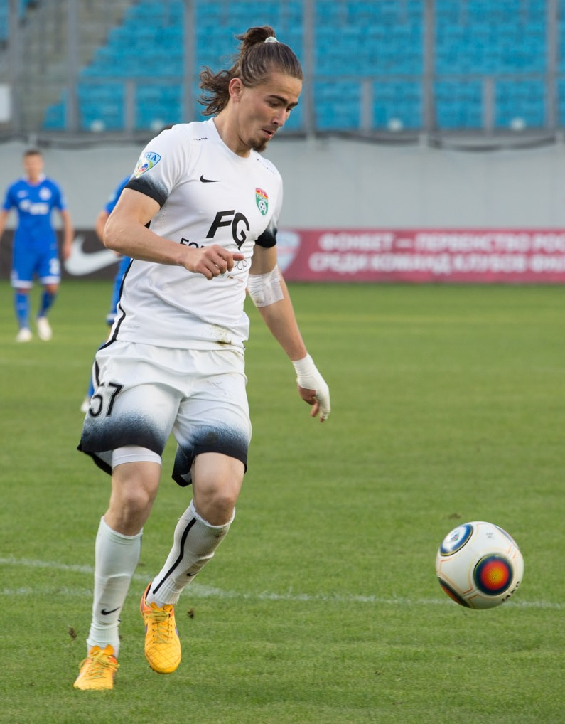 Ruslan Abazov playing for FC Tosno against FC Dynamo Moscow.